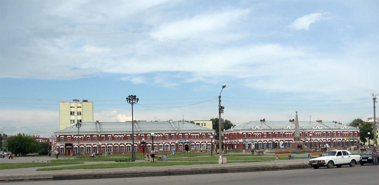 Kansk - center of the city